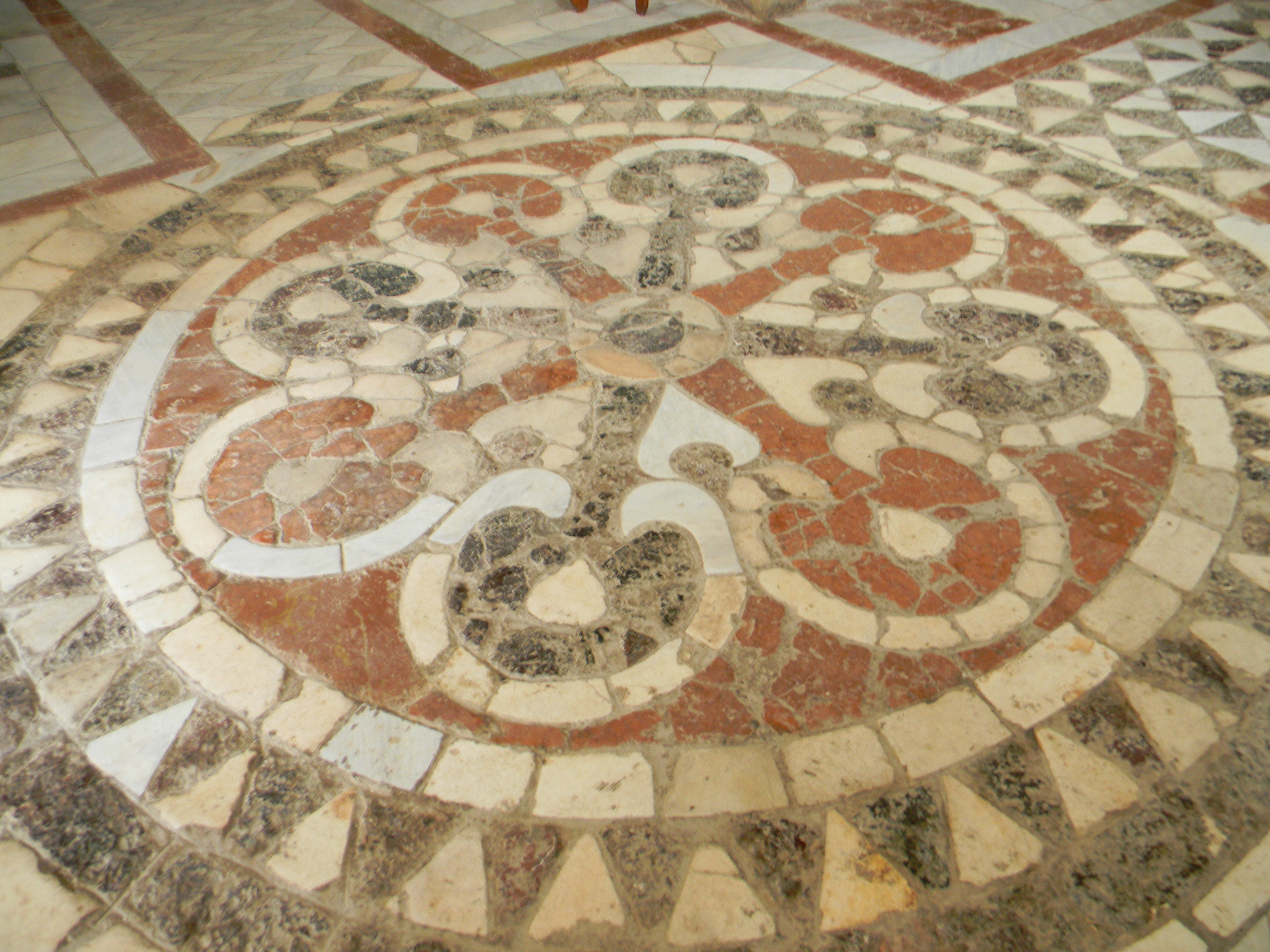 Fortress and Monastery of Manasija, near Despotovac, Serbia, Monastery floor detail